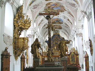 Stift Stams, Tyrol, Austria. Picture of the church on the inside